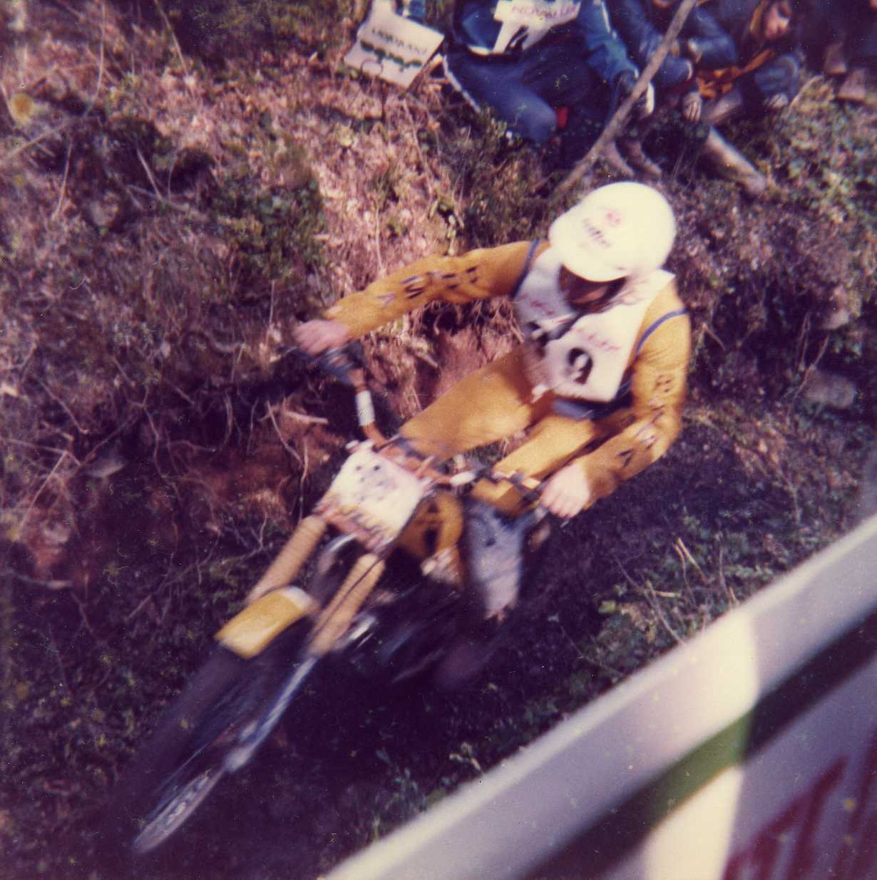 Malcolm Rathmell with his Suzuki RL 325 at XII "Trial de Sant Llorenç" in Matadepera (Catalonia) on March 12, 1978. It was the 5th race of the Trial World Championship. He finished 11th. This was the section #14, near "La Barata" (close to the road from Matadepera to Talamanca).